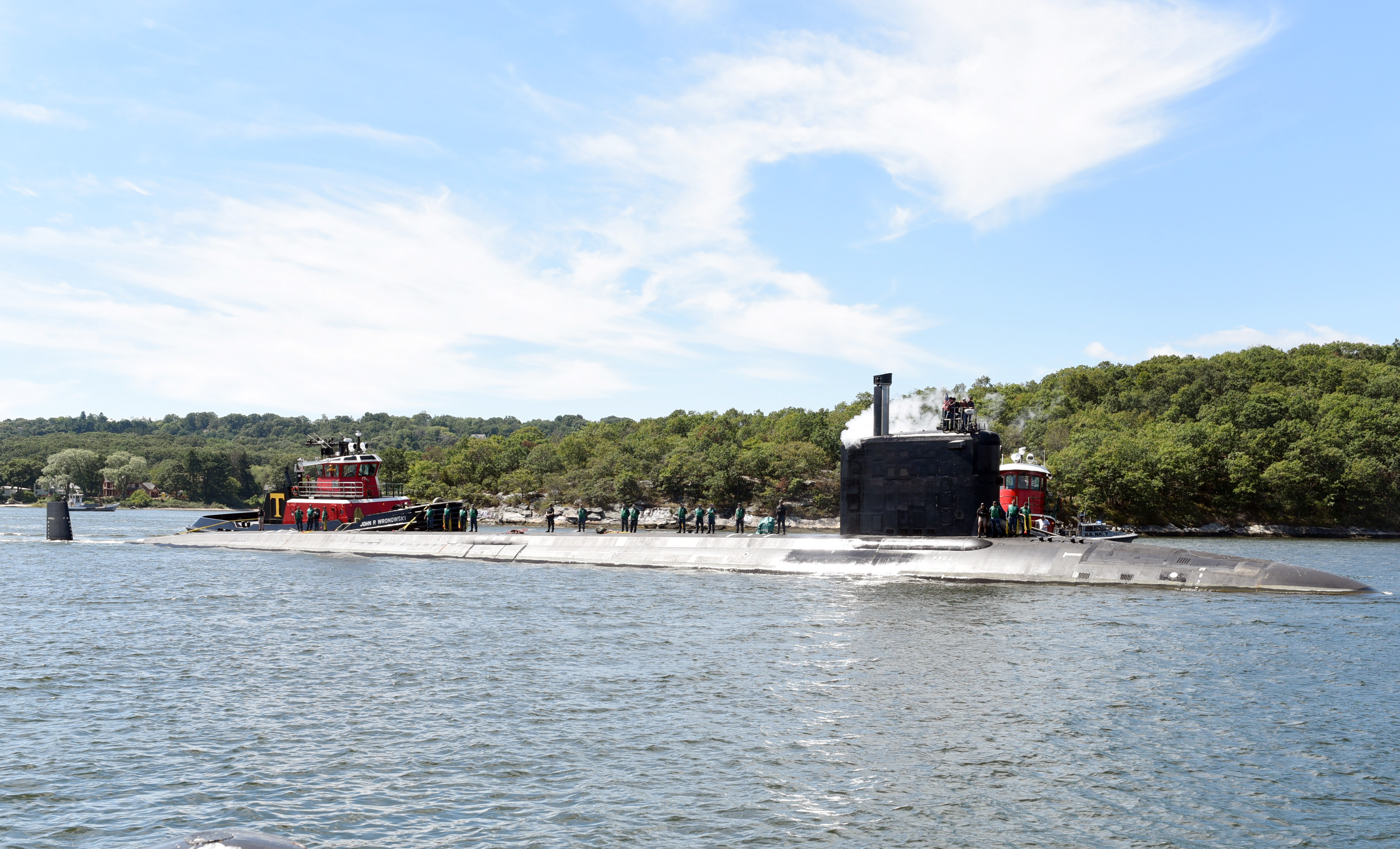 The U.S. Navy submarine USS Illinois (SSN-786) is delivered to Naval Submarine Base New London, Connecticut (USA), on 30 August 2016. Illinois was the 13th Virginia-Class attack submarine and the fourth U.S. Navy ship named for the State of Illinois.